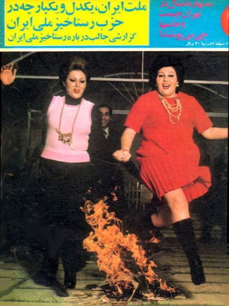 Two well-known Persian songstresses, "Hayedeh" & "Mahasti", are leaping over a fire at «Chaharshanbe Suri» on March, 1975.